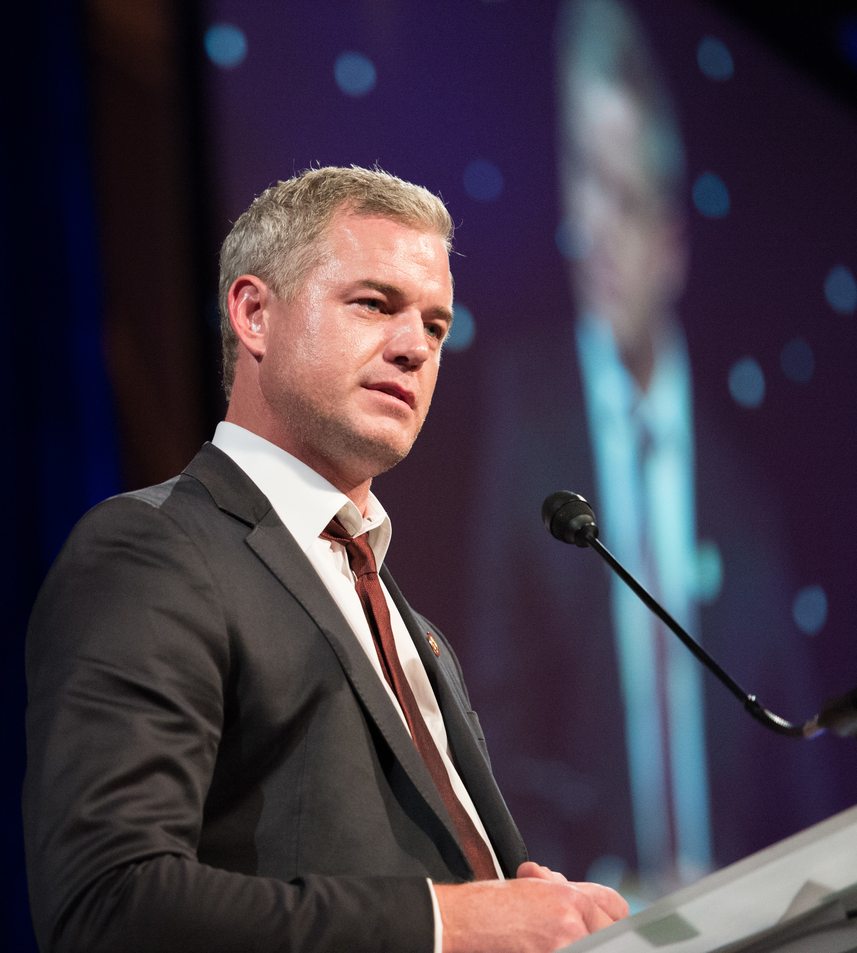 Actor Eric Dane introduces Vice Chief of Naval Operations Adm. Michelle Howard on stage to accept an award on behalf of Chief of Naval Operations Adm. Jonathan Greenert during the 21st Anniversary Tragedy Assistance Program for Survivors Honor Guard Gala at the National Building Museum in Washington D.C., March 18, 2015. TAPS is a 24-hour tragedy assistance resource for anyone who has suffered the loss of a military loved one, regardless of the relationship to the deceased or the circumstance of the death. (DoD photo by Mass Communication Specialist 1st Class Daniel Hinton/released)